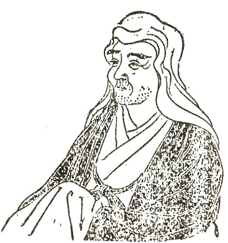 Kitamura Kigin(北村季吟) was a poet, and a student of classic Japanese literature in the first half of the Edo period.This Picture was carried on the book of the name, " the imperial biographic dictionary （帝国人名辞典）".This book was published in 1907.